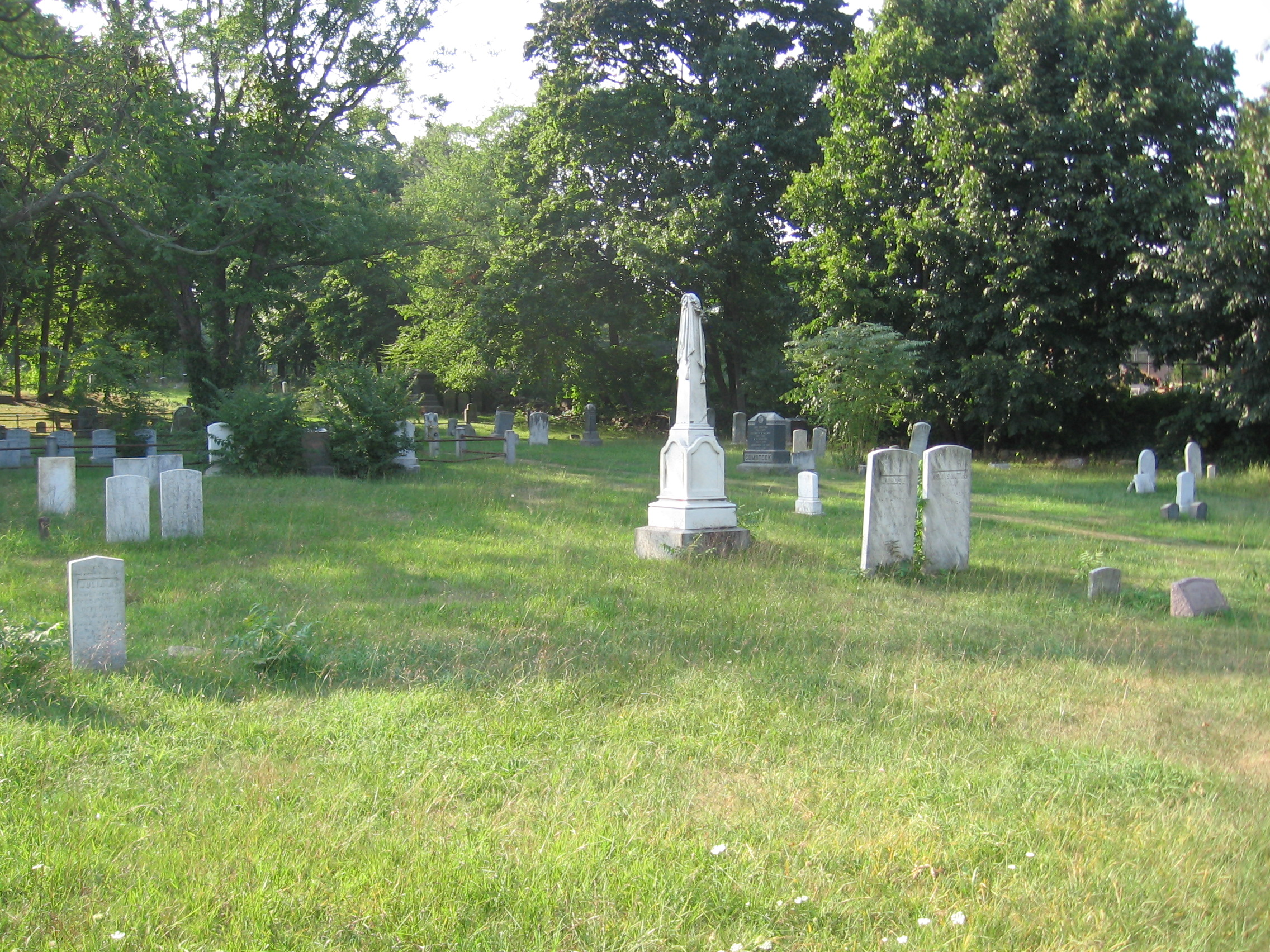 Pine Island Cemetery in the Central section of Norwalk, Connecticut